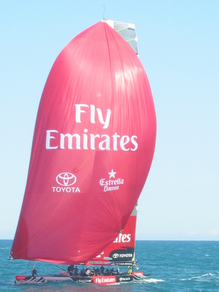 Emirates Team New Zealand (ETNZ) during the Louis Vuitton Cup 2007. June 2nd 2007